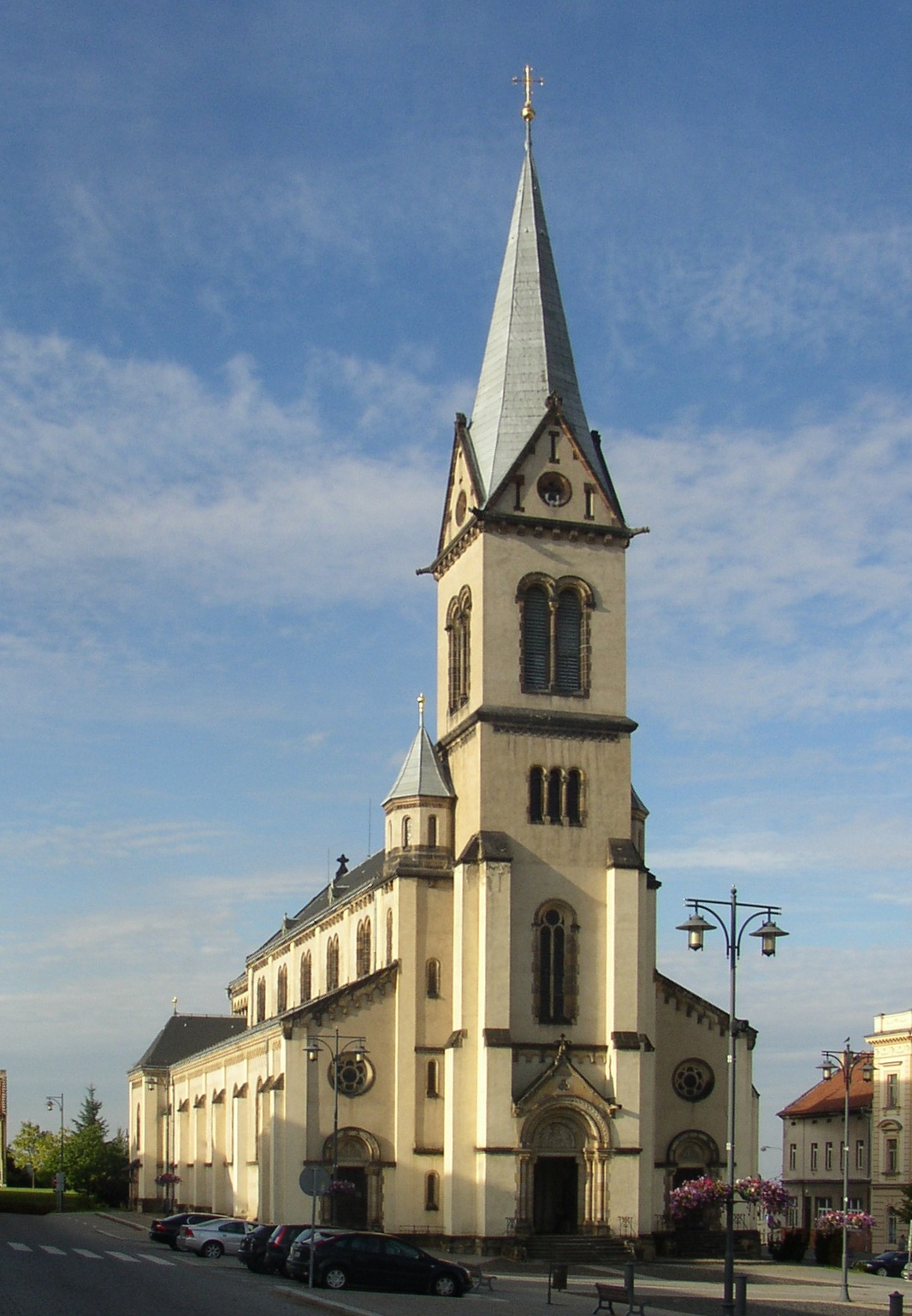 Church of the Assumption of the Virgin Mary, main Roman Catholic church in Kladno, Czech Republic.